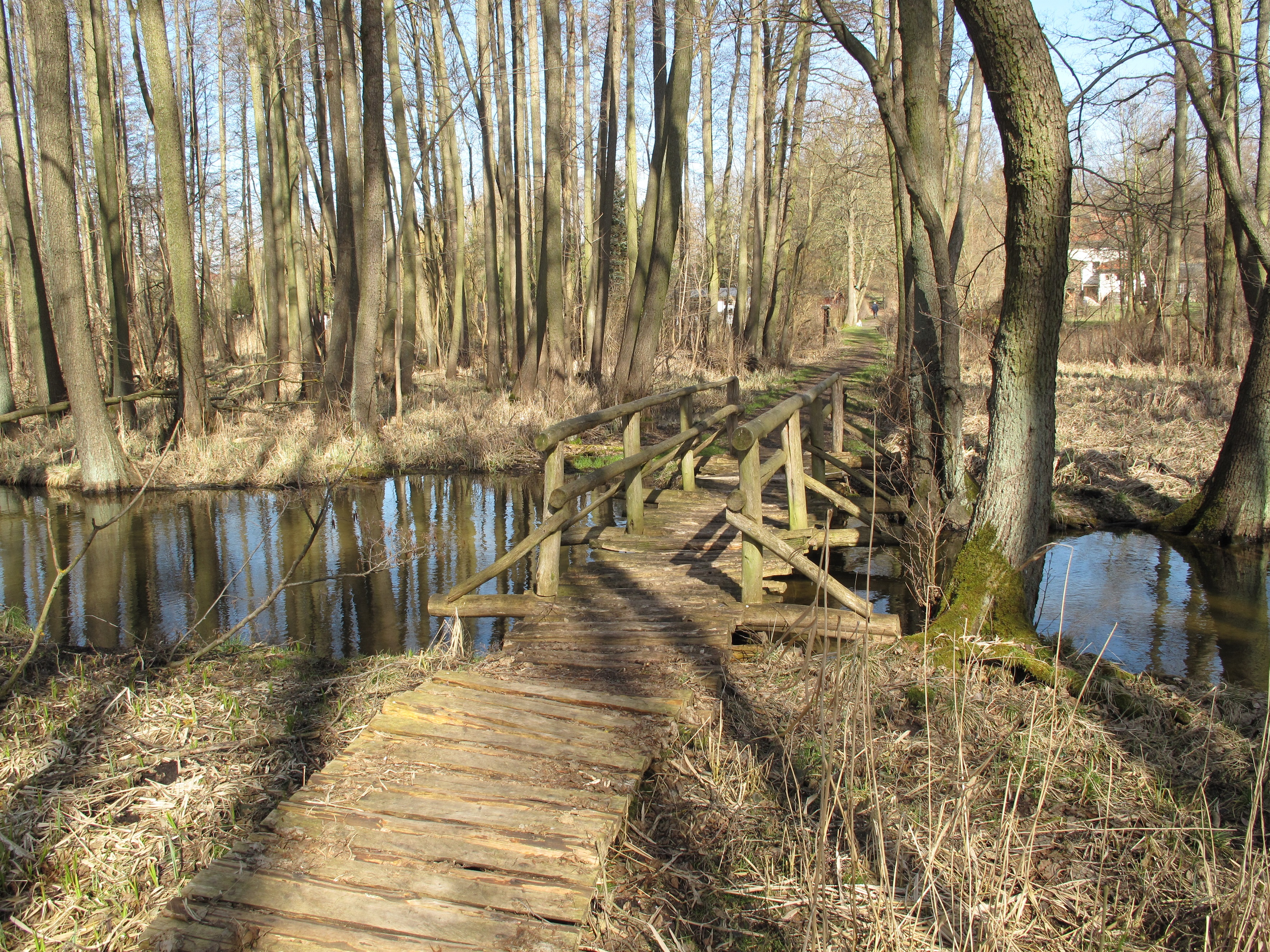 Bridge and corduroy road (Gummiweg) at the Werderfließ. The Werderfließ is an around 400 meters long stream in Buckow, District Märkisch-Oderland, Brandenburg, Germany. It is situated in the hill country „Märkische Schweiz“ and in the Märkische Schweiz Nature Park. The stream is the discharge of the Schermützelsee (lake) and is flowing into the Buckowsee (lake), which is crossed by the river Stobber. The Stobber flows into the Oder. The Werderfließ is mostly sorrounded by a species-rich black alder-carr.